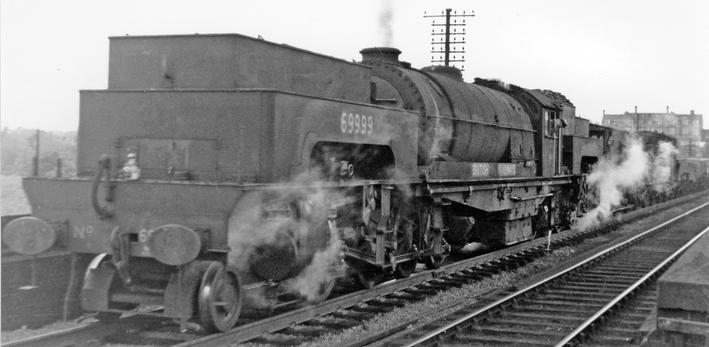 The LNER Garratt on the Lickey Incline below Blackwell. View NE just below the summit at Blackwell; ex-Midland Birmingham - Bristol main line. Up the famous Lickey Incline, two miles at 1-in-37 up from Bromsgrove, all except very light trains had take on a banker at Bromsgrove. Normally either several 0-6-0T's or the special 0-10-0 'Big Bertha' was used, later a BR Standard 2-10-0 took over 'Big Bertha's role. However, in March 1949 with the electrification in the offing of the Worsborough Incline in South Yorkshire, Britain's largest locomotive, the unique 2-8-0+0-8-2 Garratt No. 2395 (BR No. 69999), was transferred to Bromsgrove and put to work on the Lickey for 18 months. For various reasons it was not a success - even after conversion to oil-burning. Here it is behind an Up freight in April 1949; the Sanatorium at Blackwell is seen in the distance. (See also ...